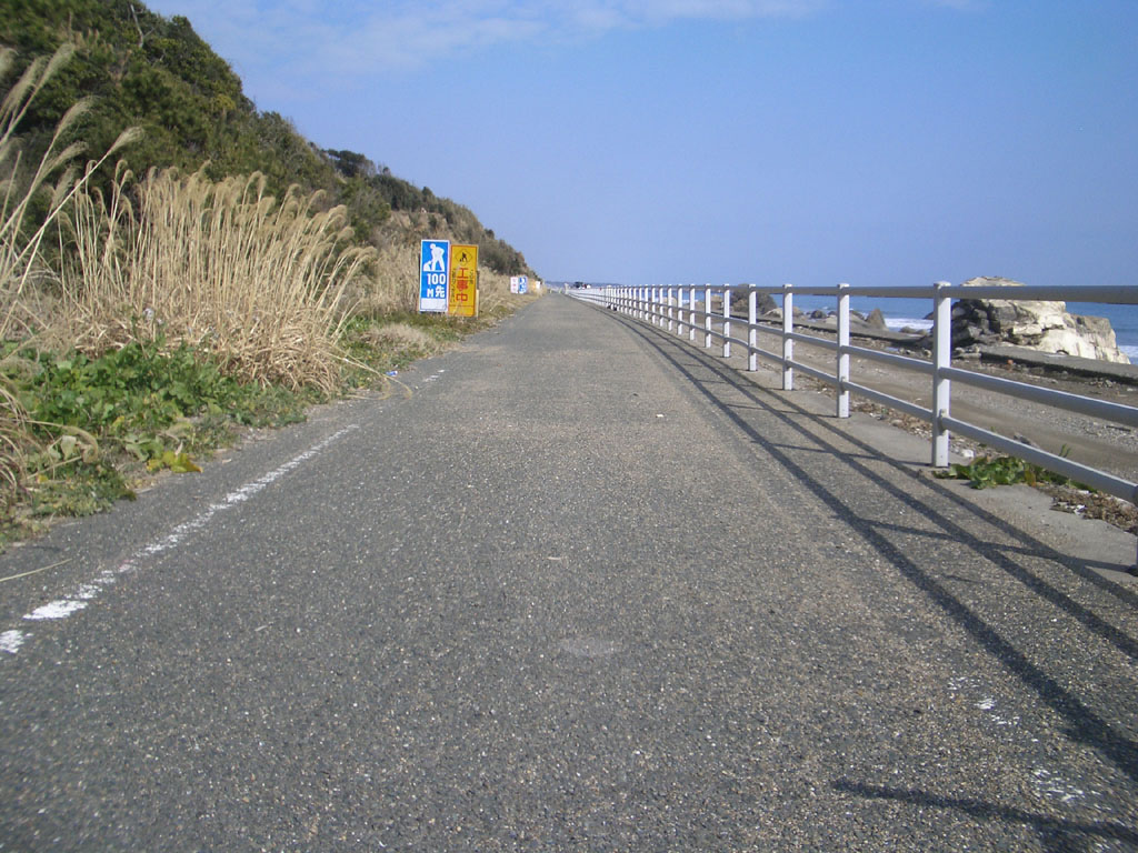 Aichi prefectural road 497, Atsumi-Toyohashi Cycling Road (Horikiri T, Tahara, Aichi)